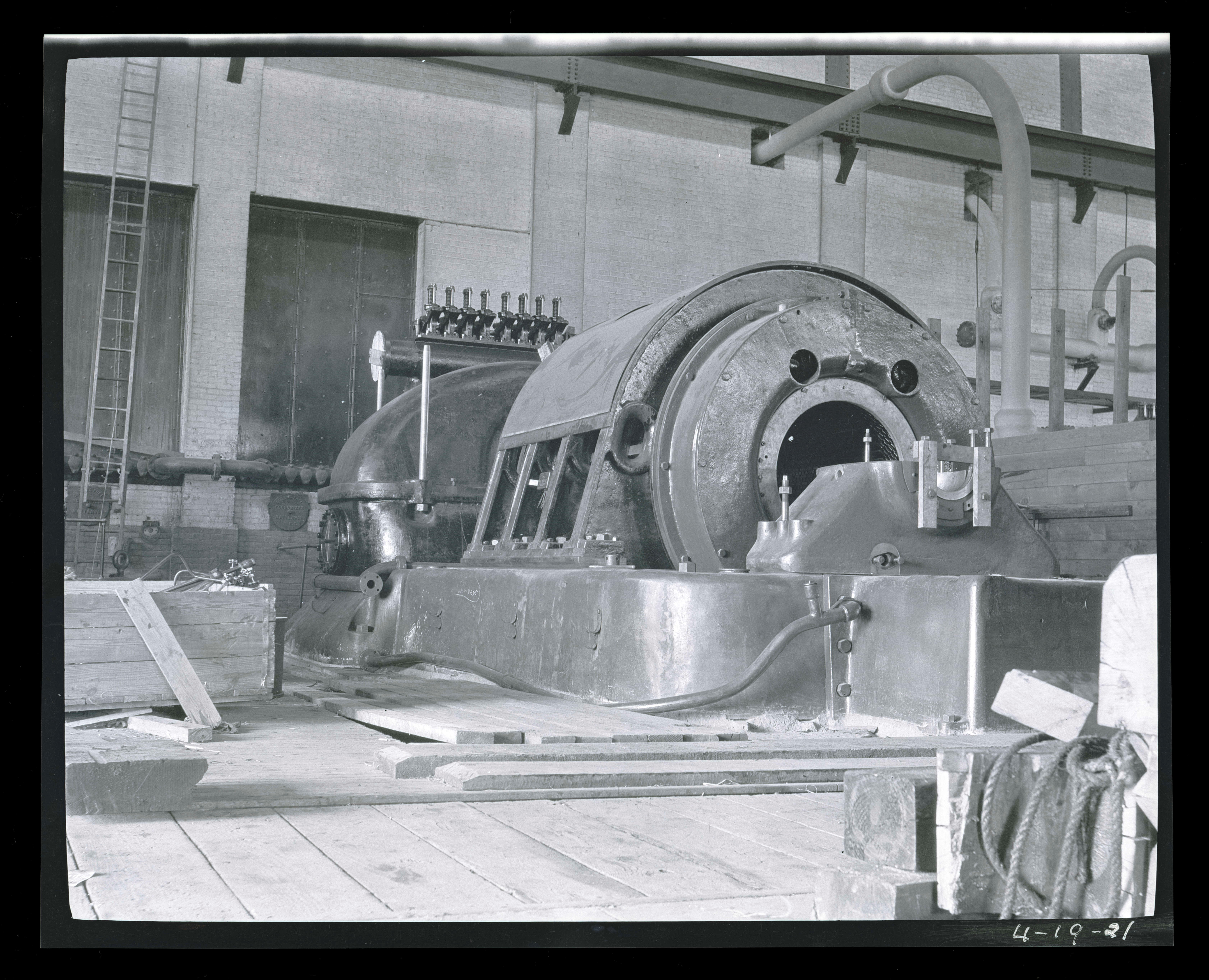 Assembly of steam powered turbine with generator westinghouse Oregon meuseum of science and industry